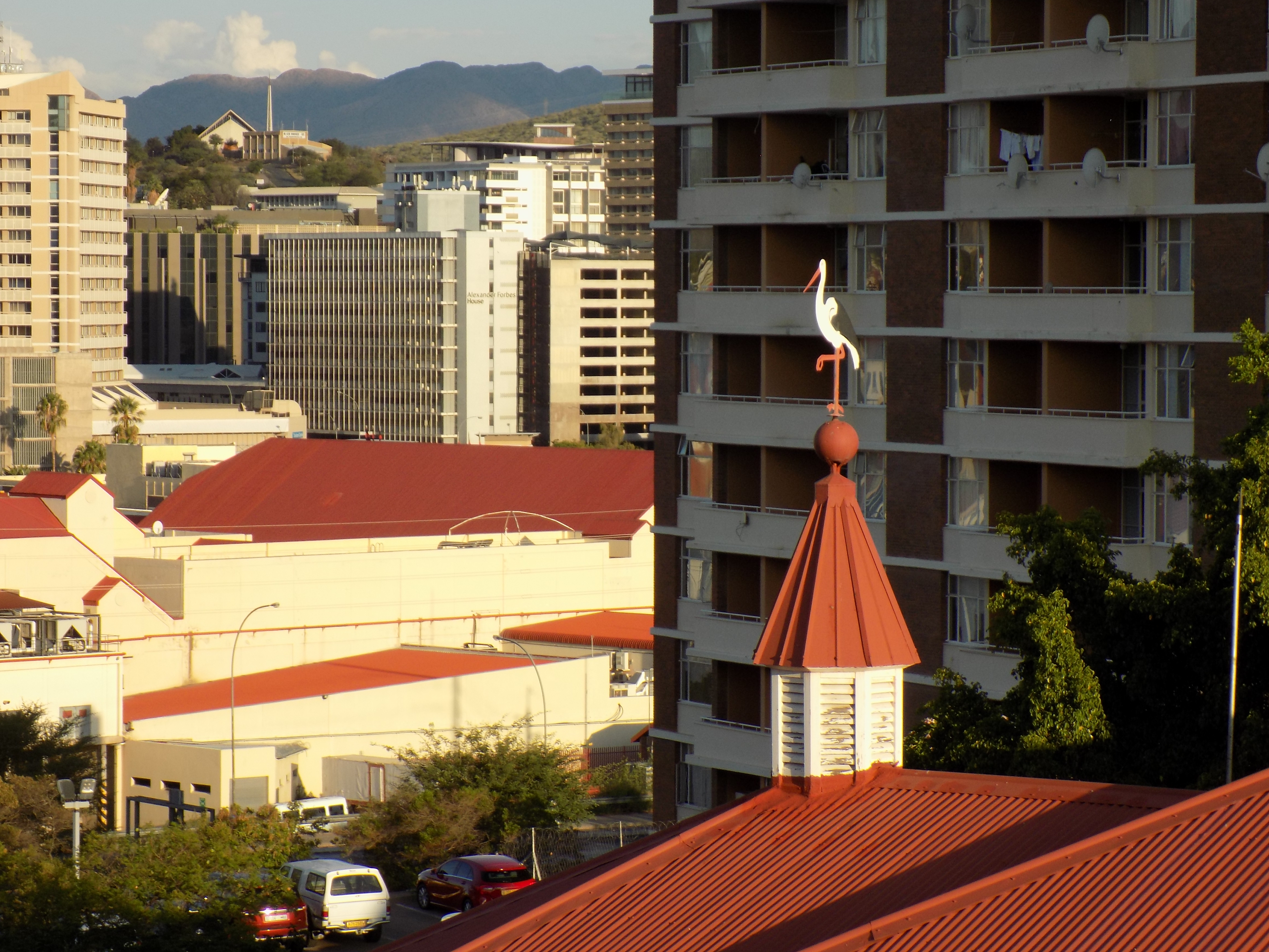 This is an image with the theme "Play" from: Namibia